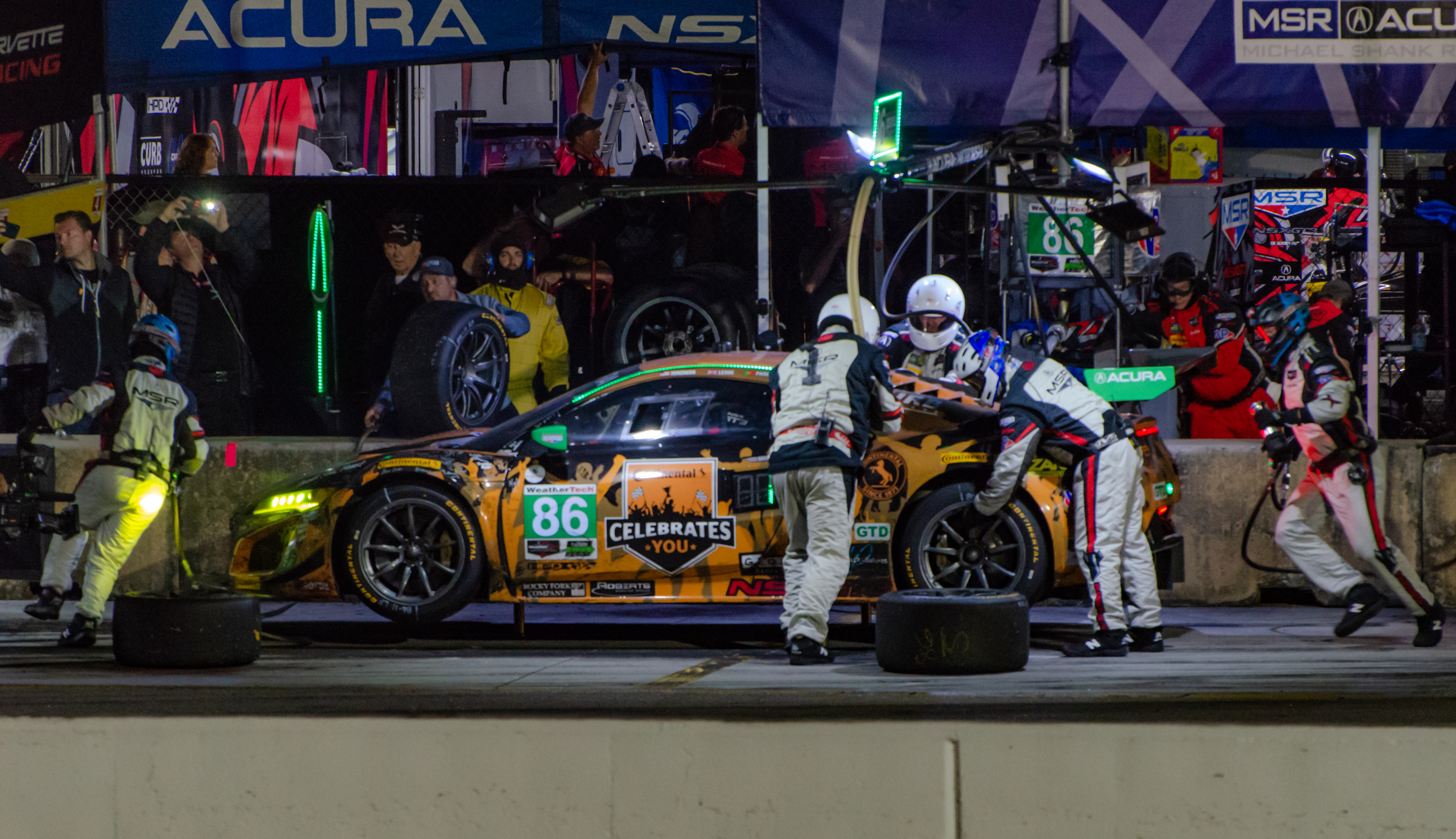 No.86 Acura GTD during a pit stop in Petit Le Mans 2018